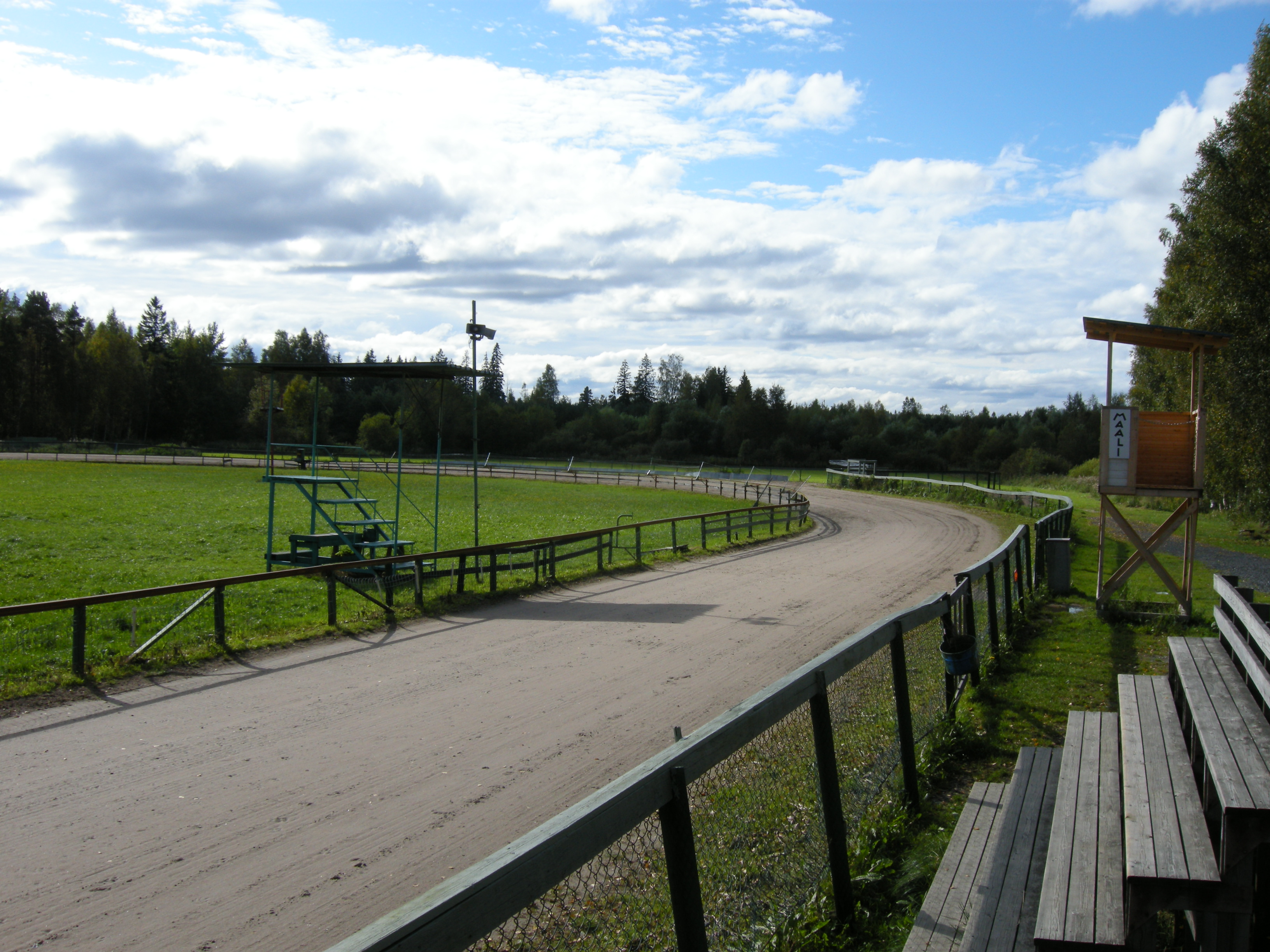 Sighthound track in Hyvinkää, Finland